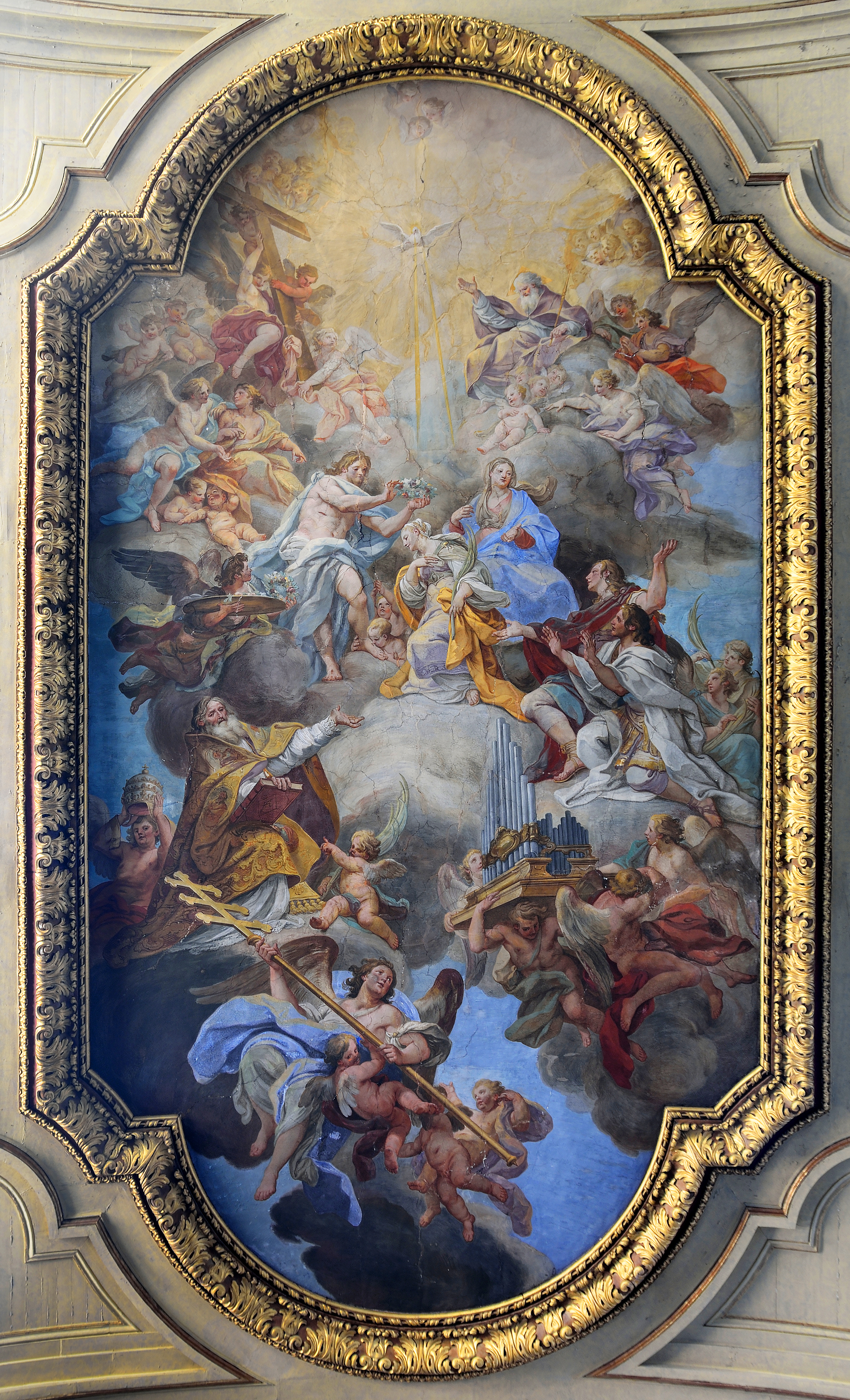 Santa Cecilia (Rome) - Ceiling